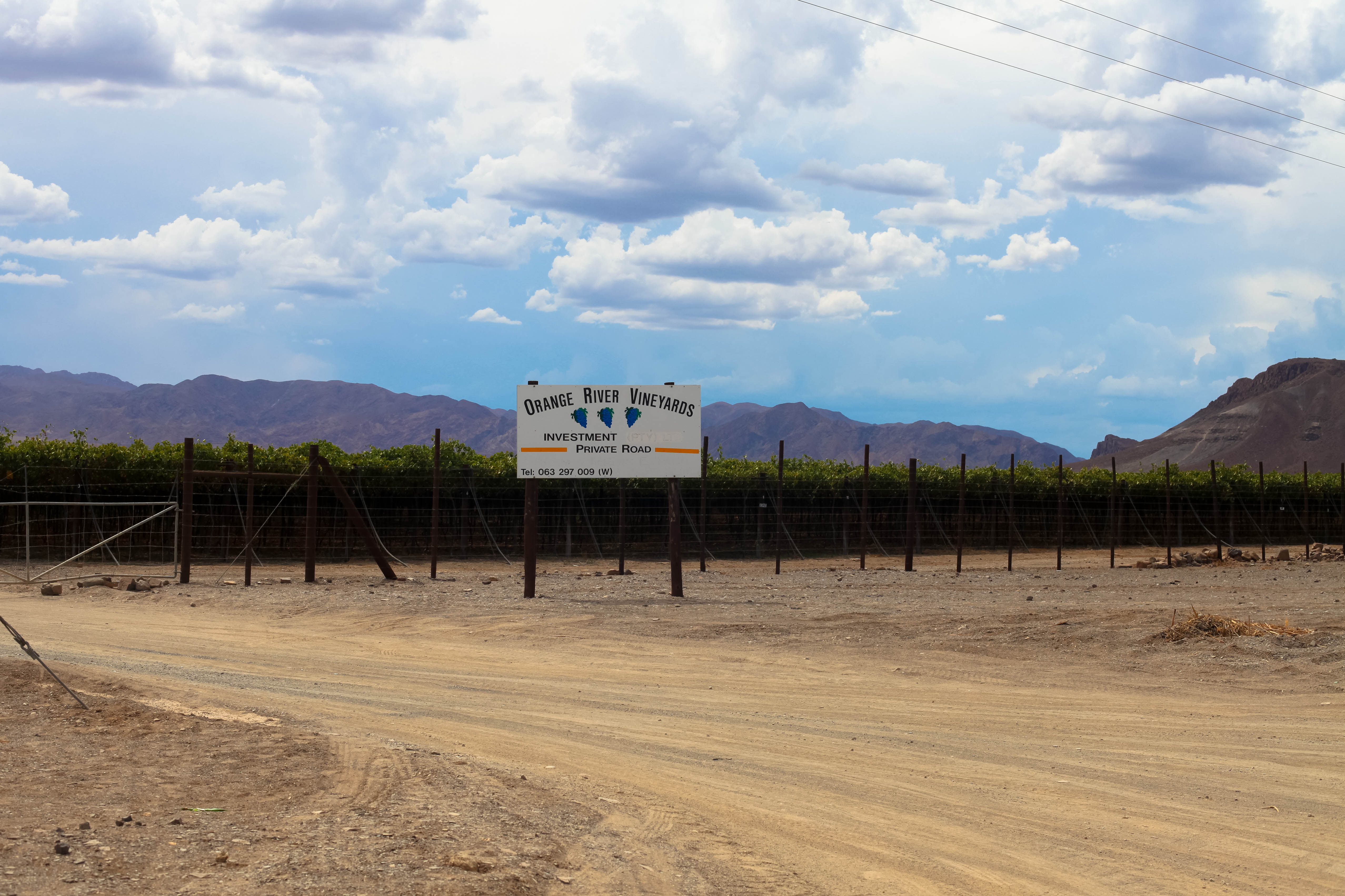 Sign at the entrance of one of the giant Wine farms at Aussenkehr on the Orange river in Namibia. These frarms seem to exist mainly as inventment opportunities combining extremely cheap labour, governement allocated water from the river and abundant sun tp produce mass market wines.